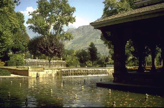 Shalimar Gardens (Kashmir, India)